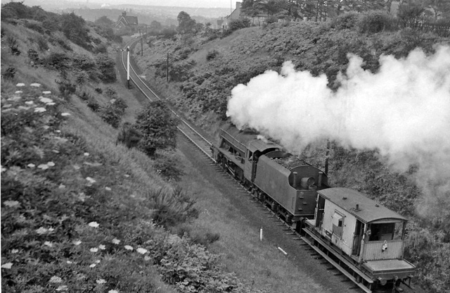 Blidworth & Rainworth Station (remains). View NW, towards Mansfield. Station (remains) are in left distance, ahead of the Engine (a Stanier Class 8F 2-8-0) and brake. This is the ex-Midland Mansfield - Rolleston Junction line in its last throes, having lost its passenger service on 12/8/29 and closing completely on 1/2/65.